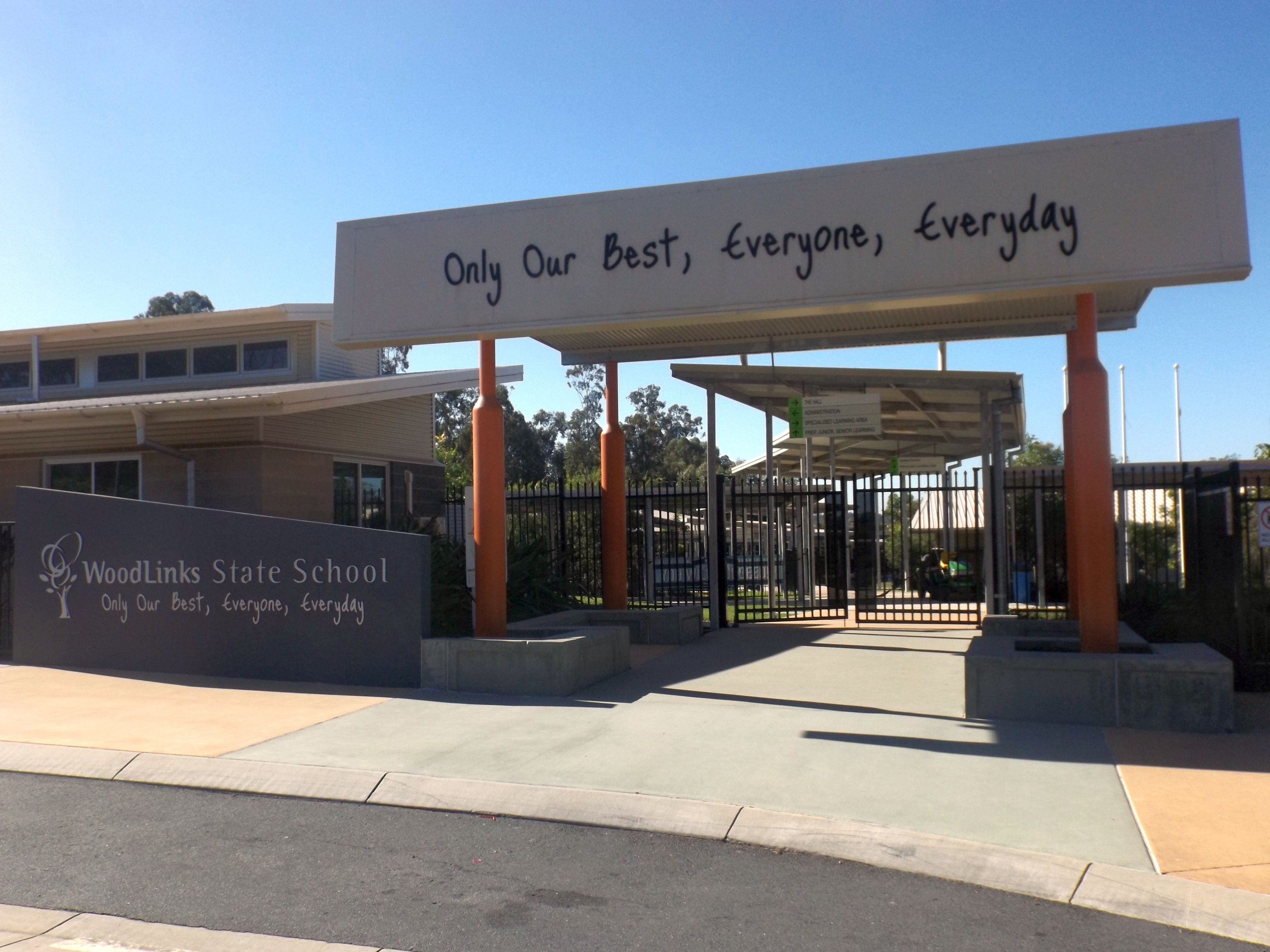 Photo of City of Ipswich, Queensland, Australia.